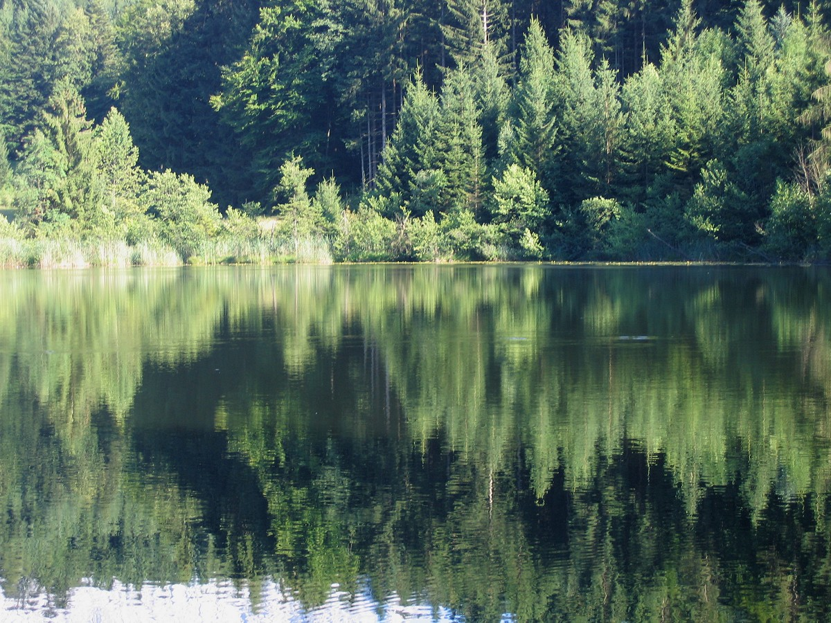 Egelsee bei Kufstein und Kiefersfelden This media shows the natural monument in the Tyrol with the ID ND_5_10.